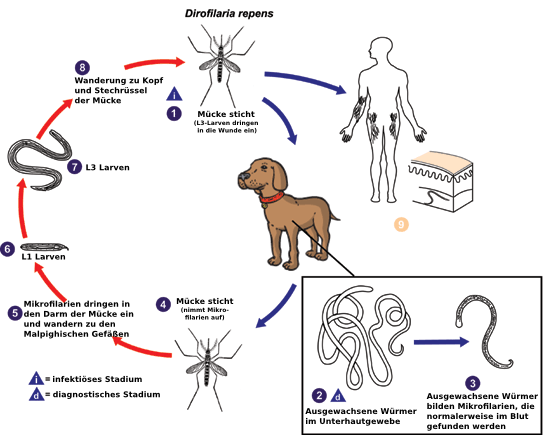 Life Cycle of Dirofilaria repens